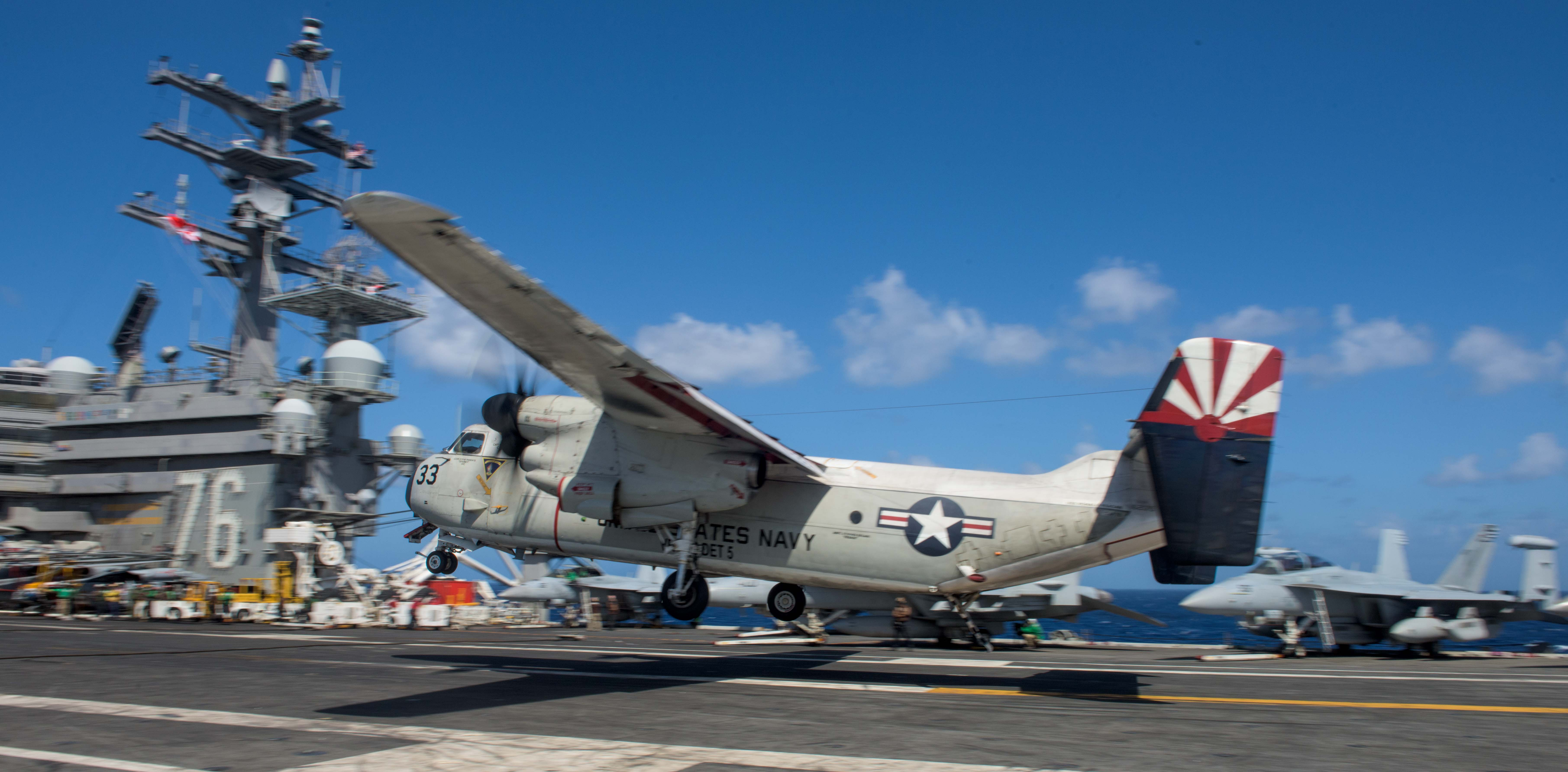 170703-N-OY799-082 PACIFIC OCEAN (July 3, 2017) A C-2A Greyhound assigned the "Providers" of Fleet Logistics Support Squadron (VRC) 30 lands on the flight deck of the aircraft carrier USS Ronald Reagan (CVN 76). The Greyhound held the cremains of Julius H. Frey and wife, Jerry A. Frey. The cremains are scheduled for a burial-at-sea aboard Reagan July 15. Julius was a World War II veteran who fought in the Battle of Coral Sea on the aircraft carrier USS Lexington (CV 2). Ronald Reagan is the flagship of Carrier Strike Group 5, which is on patrol in the U.S. 7th Fleet area of operations in support of security and stability in the Indo-Asia-Pacific region. (U.S. Navy photo by Mass Communication Specialist 2nd Class Kenneth Abbate/Released) 170703-N-OY799-082 Join the conversation: navylive.dodlive.mil